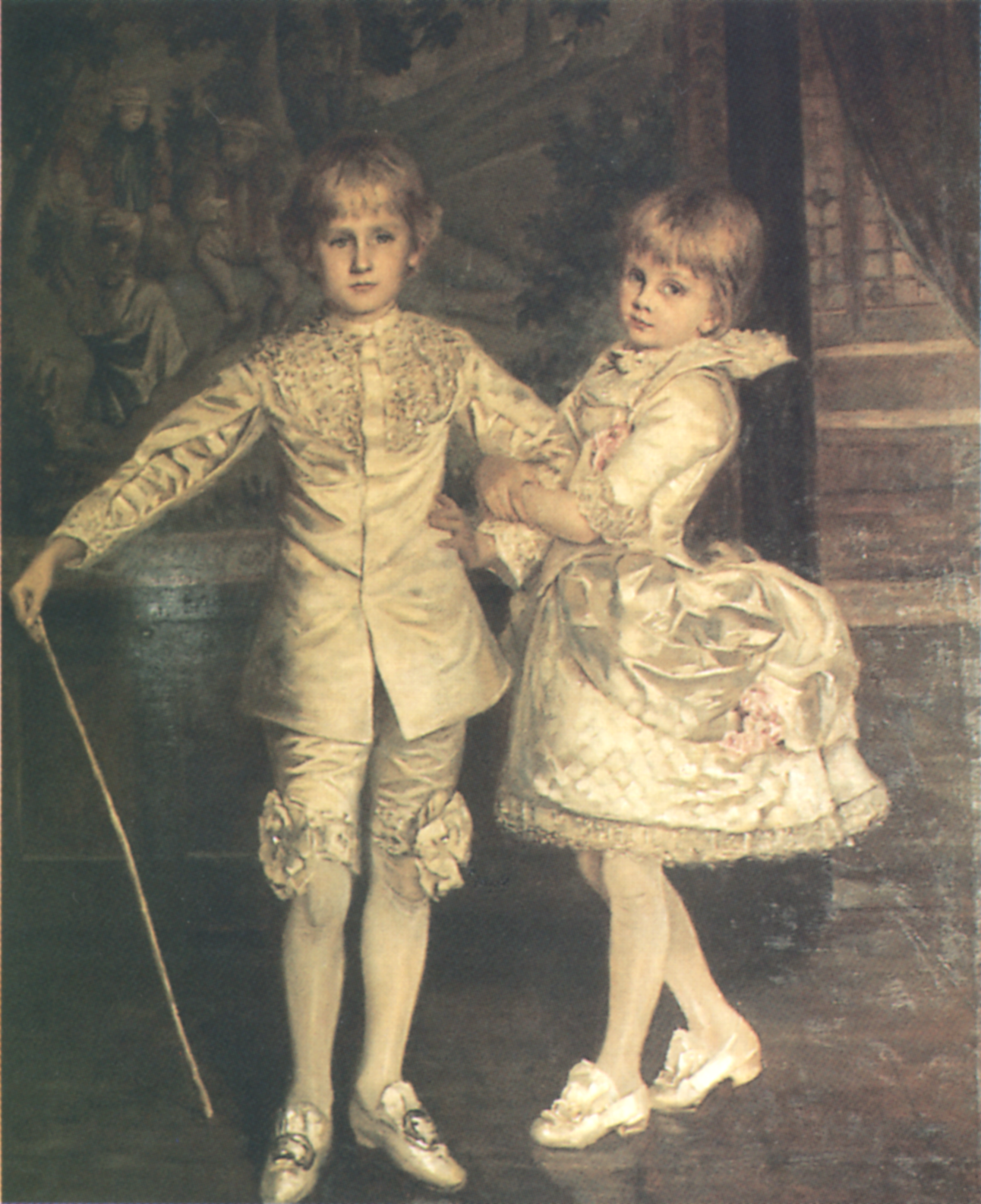 Oil on canvas painting by Sarah Purser, titled Berkeley and Dorothy Sheffield. Catalogued under the number 131. This painting was exhibited in 1885 at the Royal Academy in London.